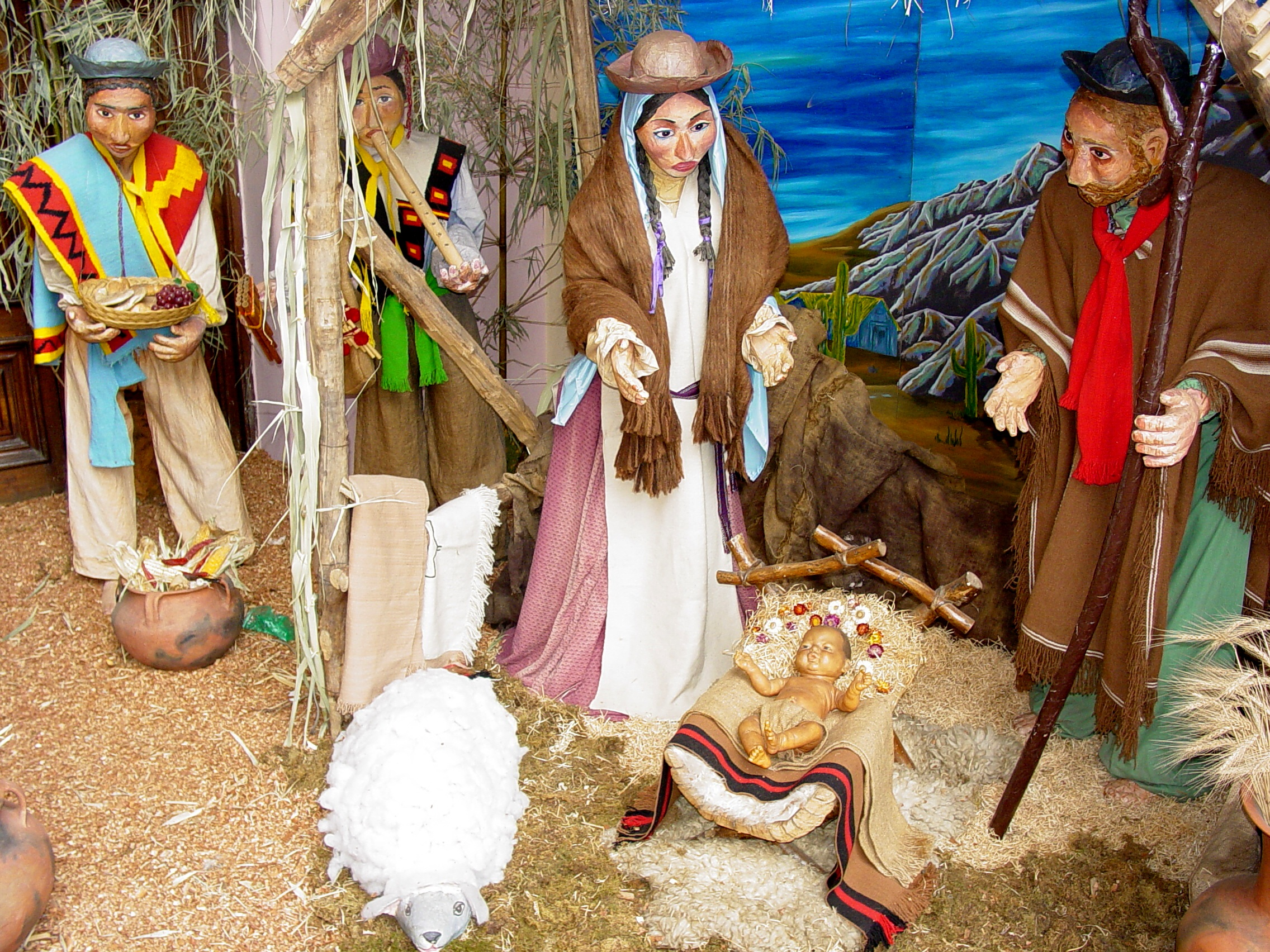 Andean nativity scene - Salta, Argentina. December 2003.